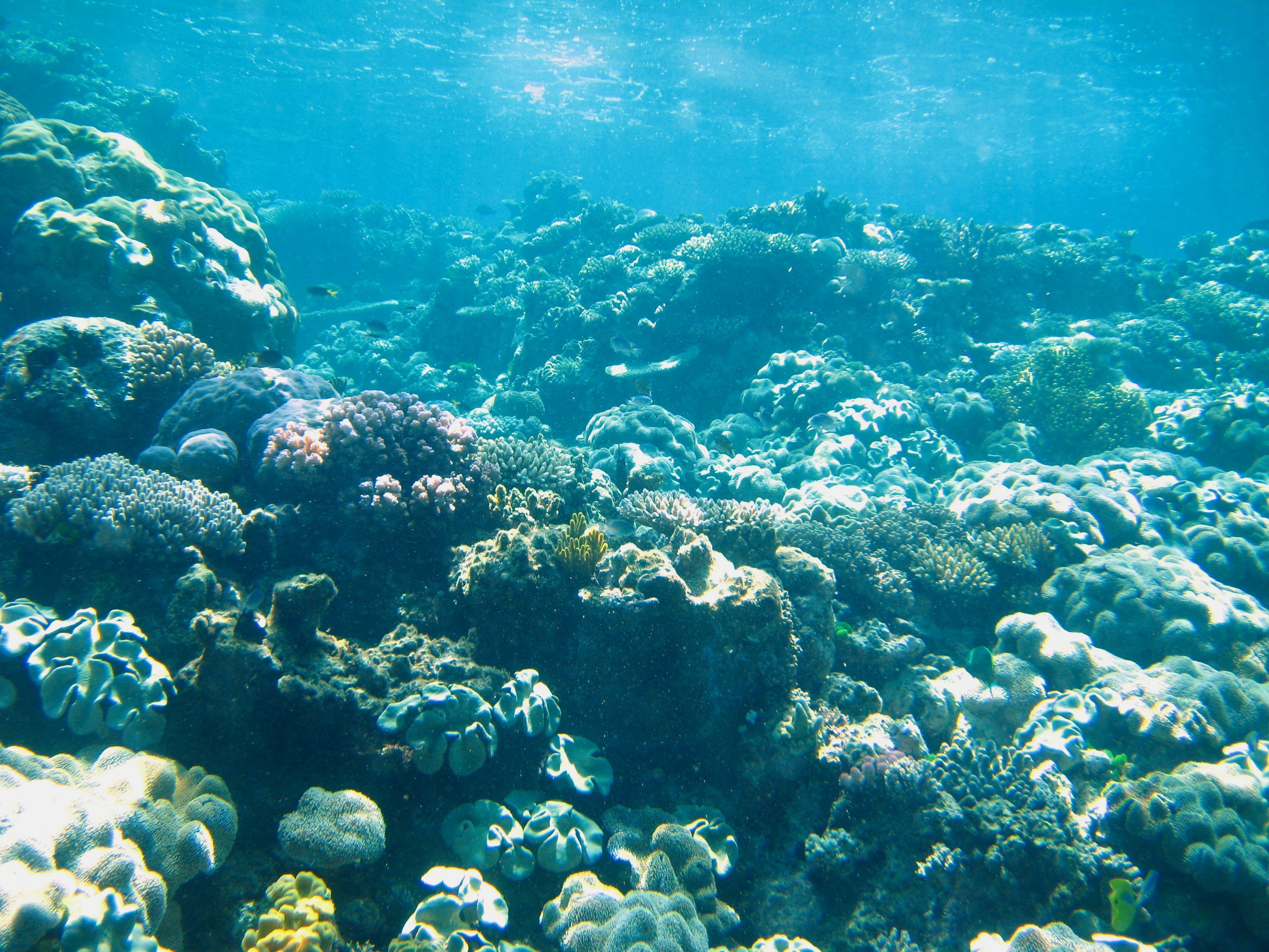 Australia, Great Barrier Reef.